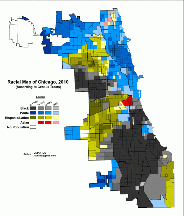 This is a racial map of Chicago, according to the 2010 population census.